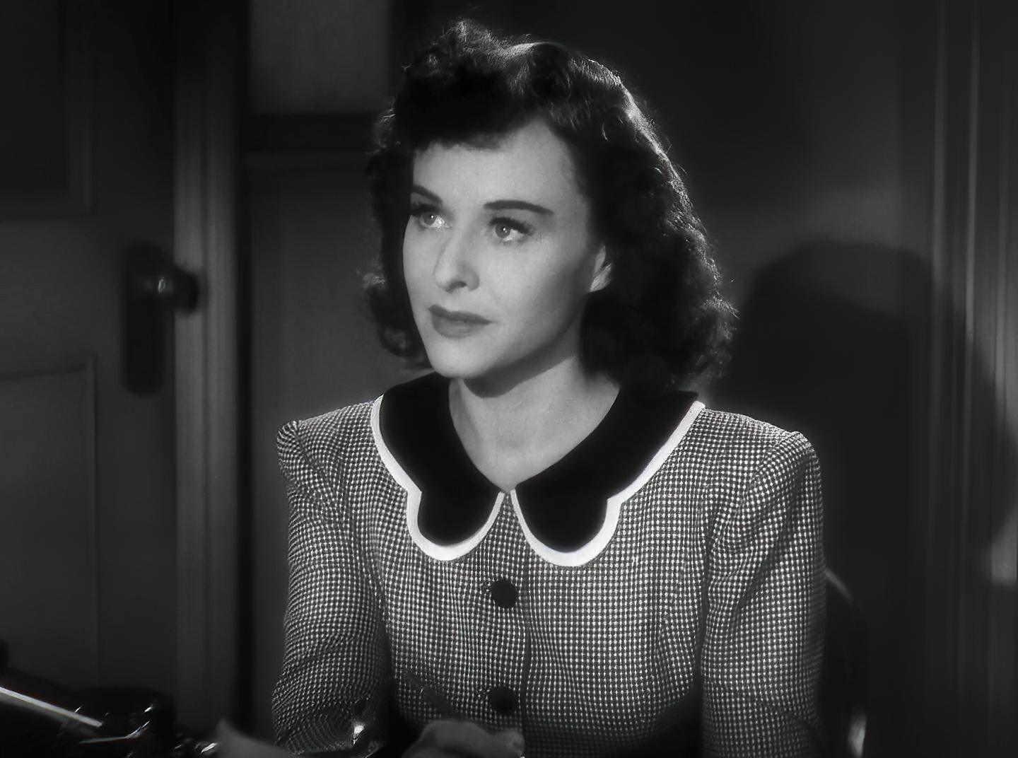 Cropped screenshot of Paulette Goddard from the film Second Chorus.